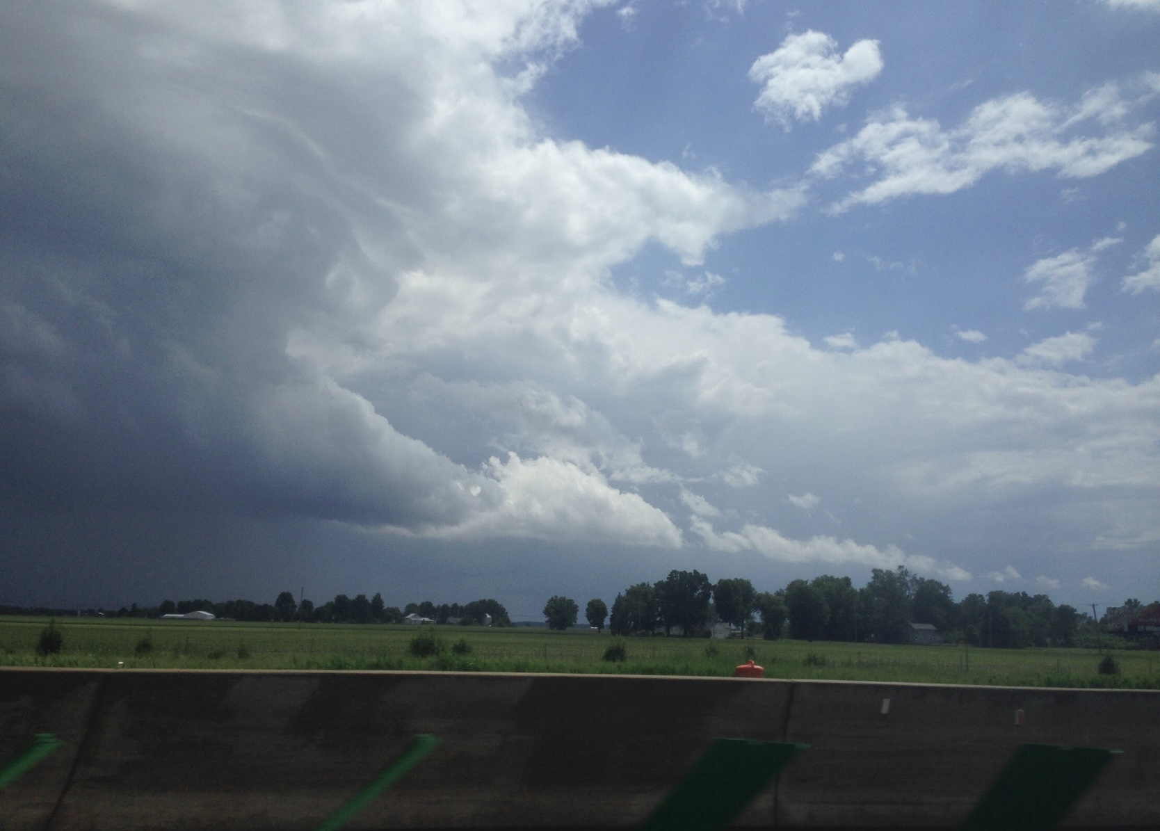 A photograph of an incoming cold front (on the left). Photo was taken in May 2016.